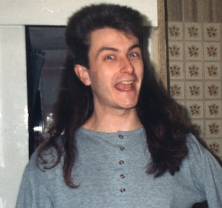 A fine example of a happy mullet wearer.